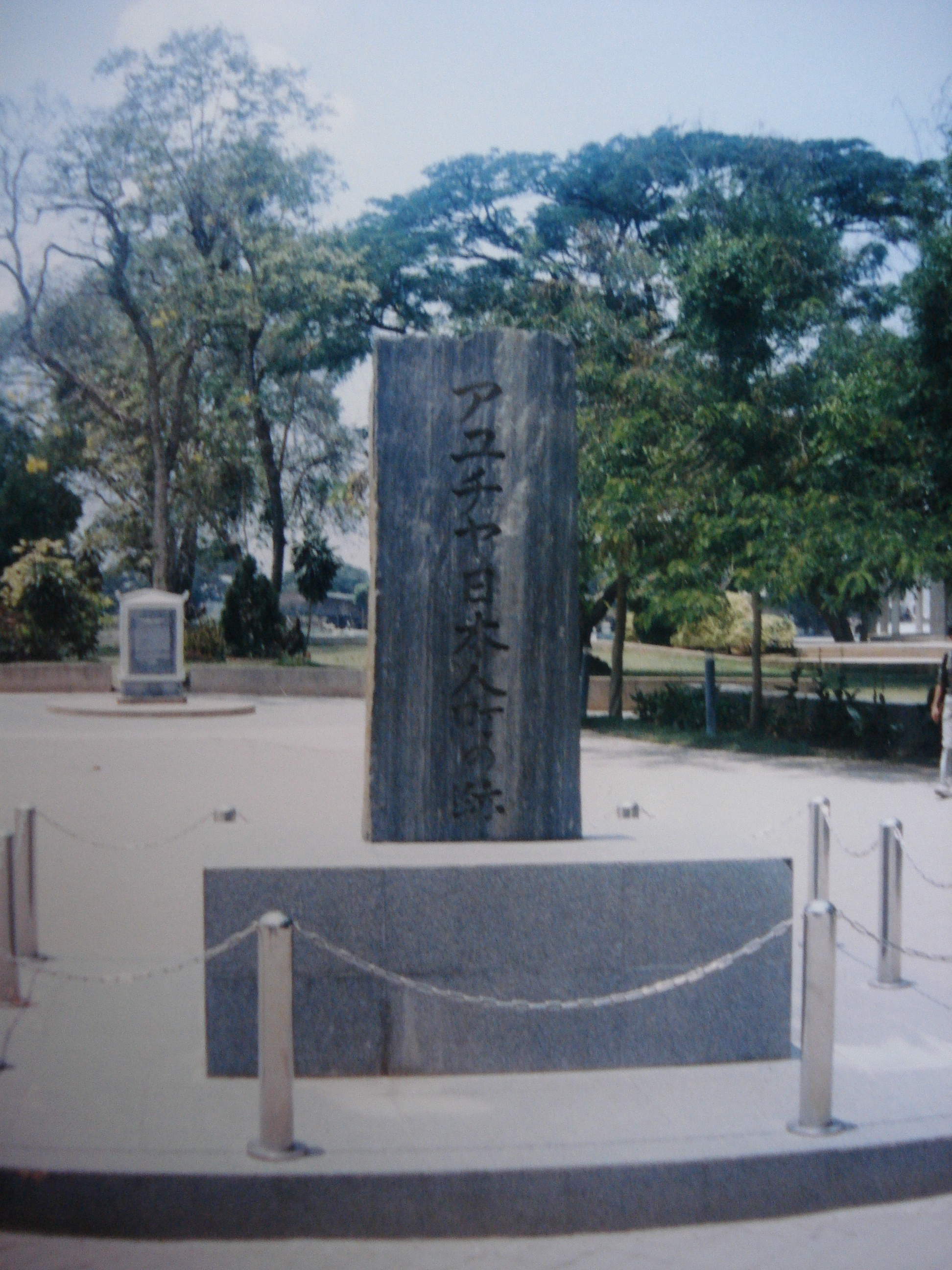 Ayutthaya japanese town